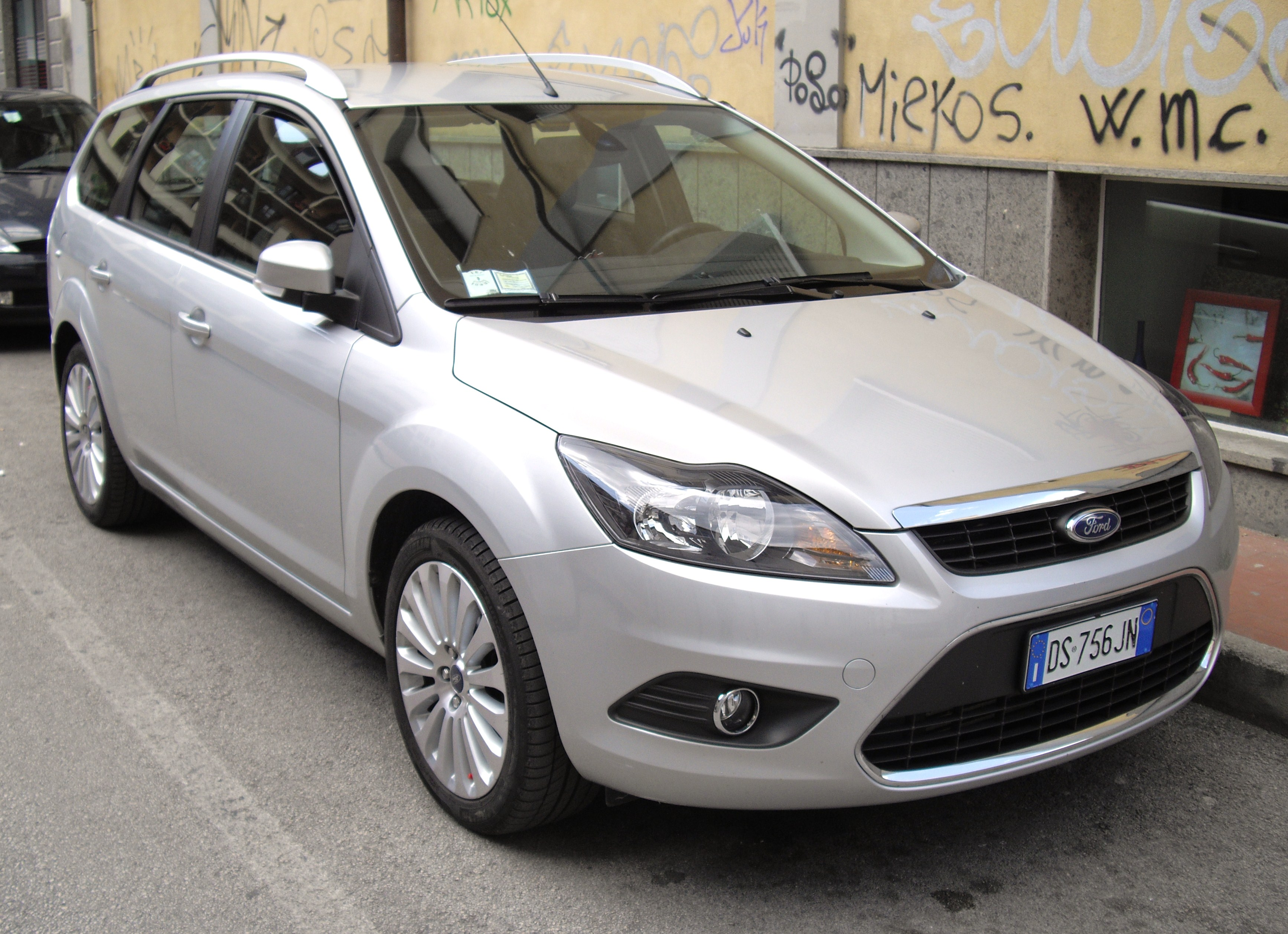 Ford Focus SW